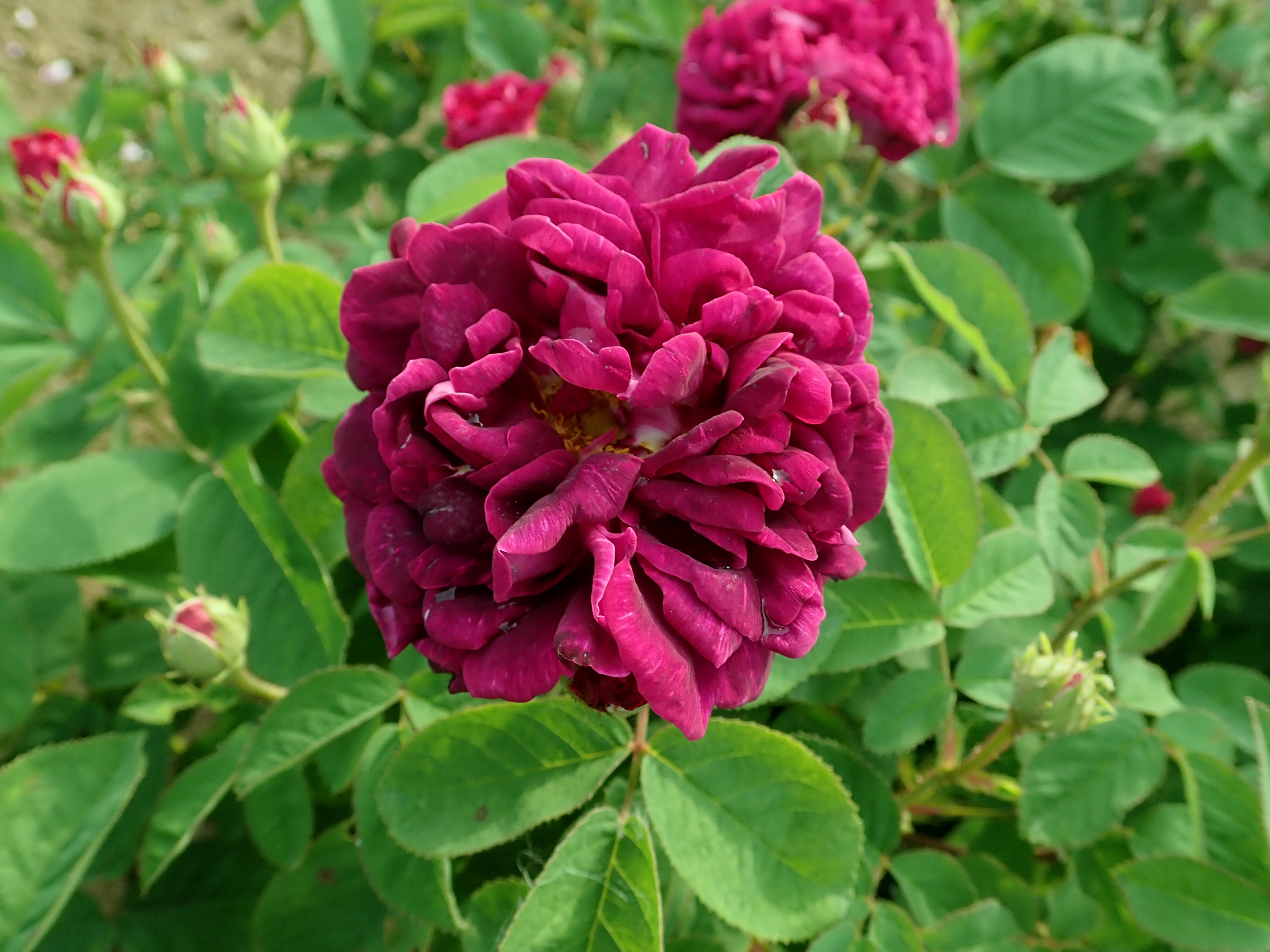 Rosa ‘Tuscany’ (France, before 1800), Europa-Rosarium Sangerhausen.